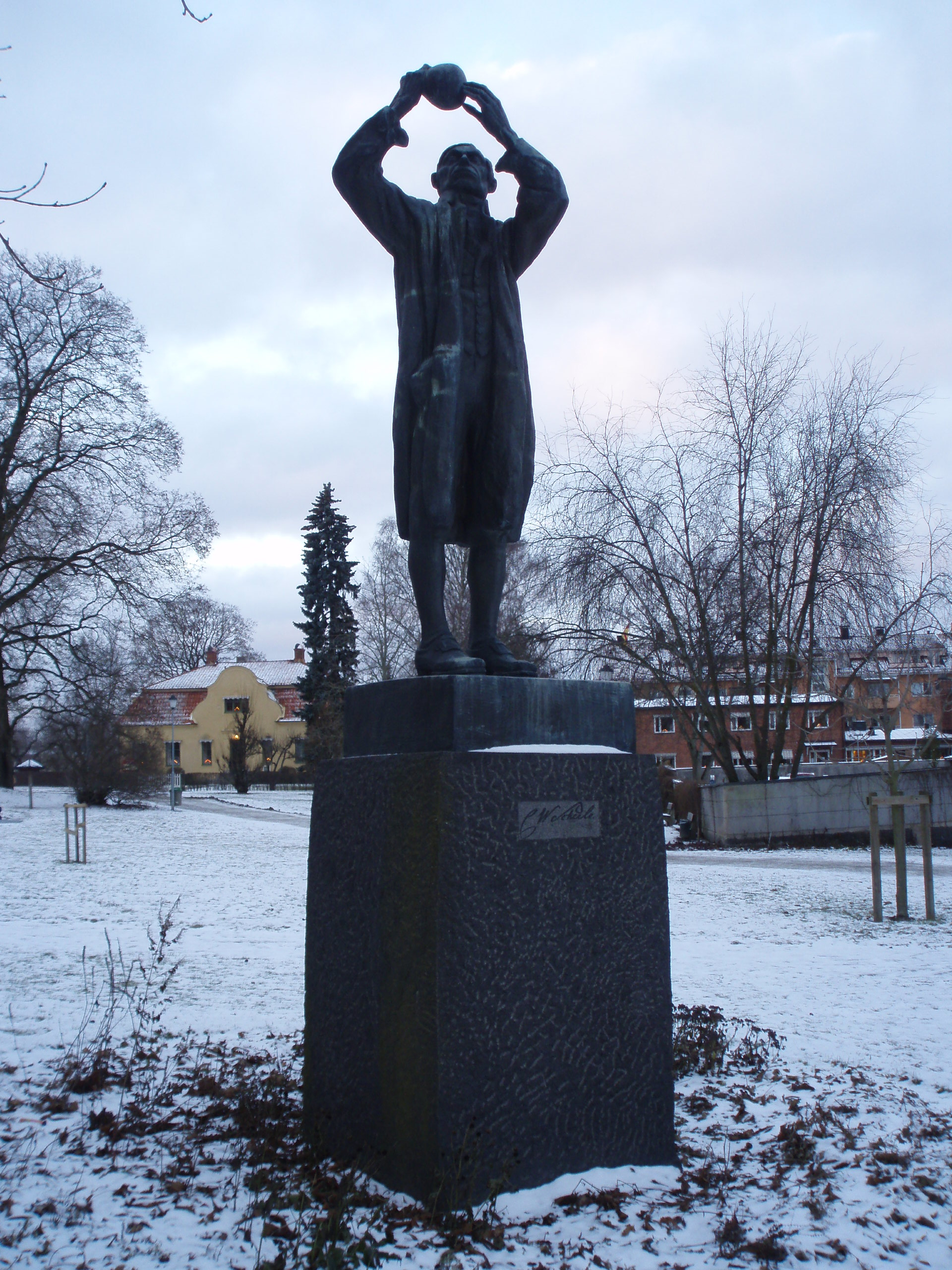 Statue of Carl Wilhelm Scheele in Köping, Sweden